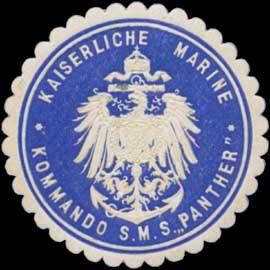 Sealing stamp Title: K. Marine Kommando S.M.S. Panther Description: Schiff Place: size: cm